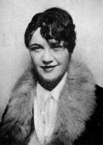 There is a short but informative posting about Vera Rockline's life and works here